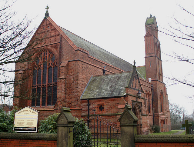 West end, St James', Daisy Hill A study in the bricklayer's art.